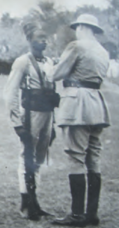 Dominique Kosseyo (1919-1994), African soldier of the Free French forces, Compagnon de la Libération awarded by general de Gaulle